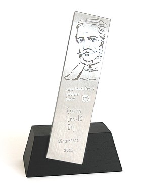 Lászó Csány Prize, small sculpture